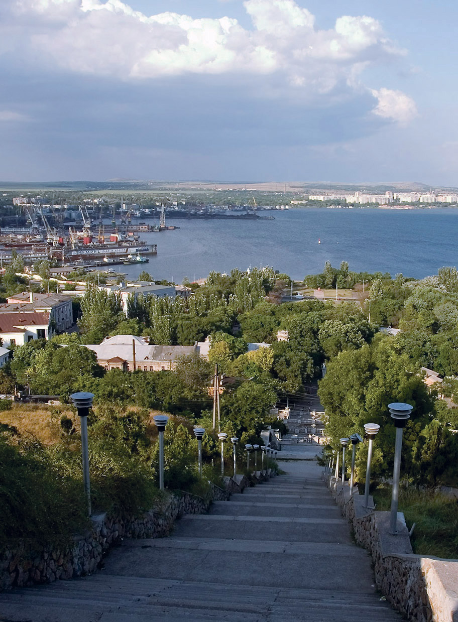 Mithridates Staircase with 428 footsteps / Kerch, Ukraine